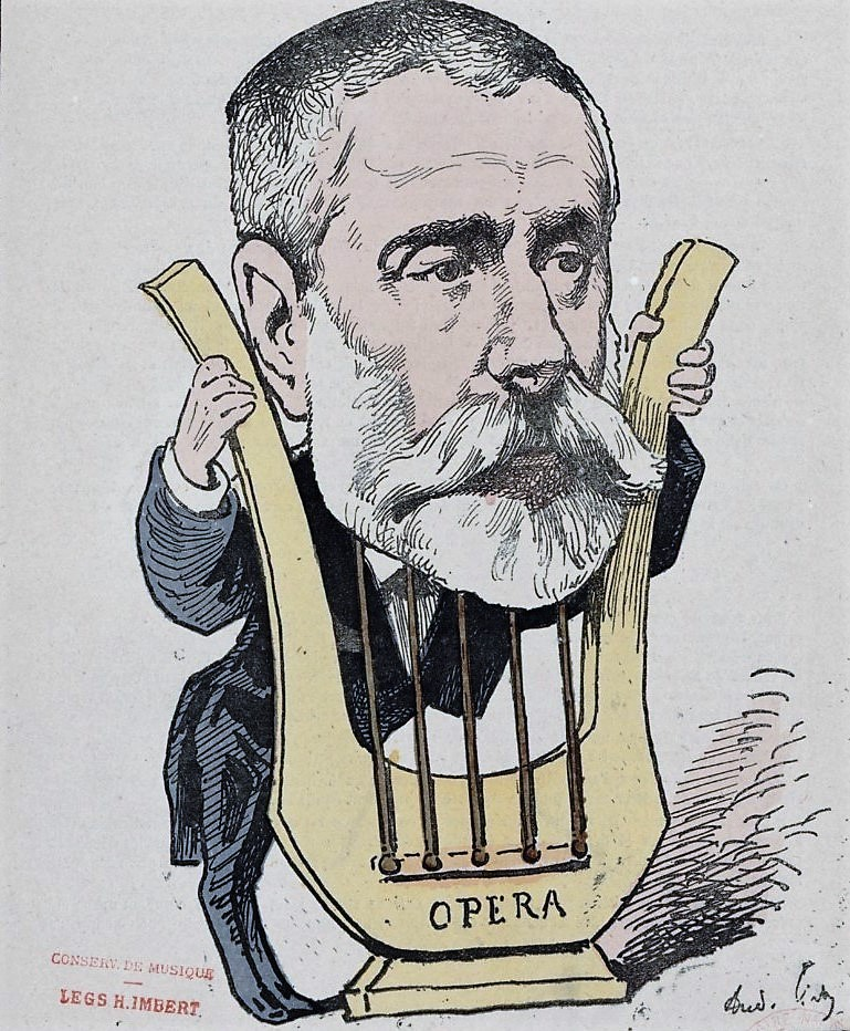 Caricature of French composer and theatre manager Auguste Vaucorbeil by André Gill, published on the cover of Les Hommes d'aujourd'hui